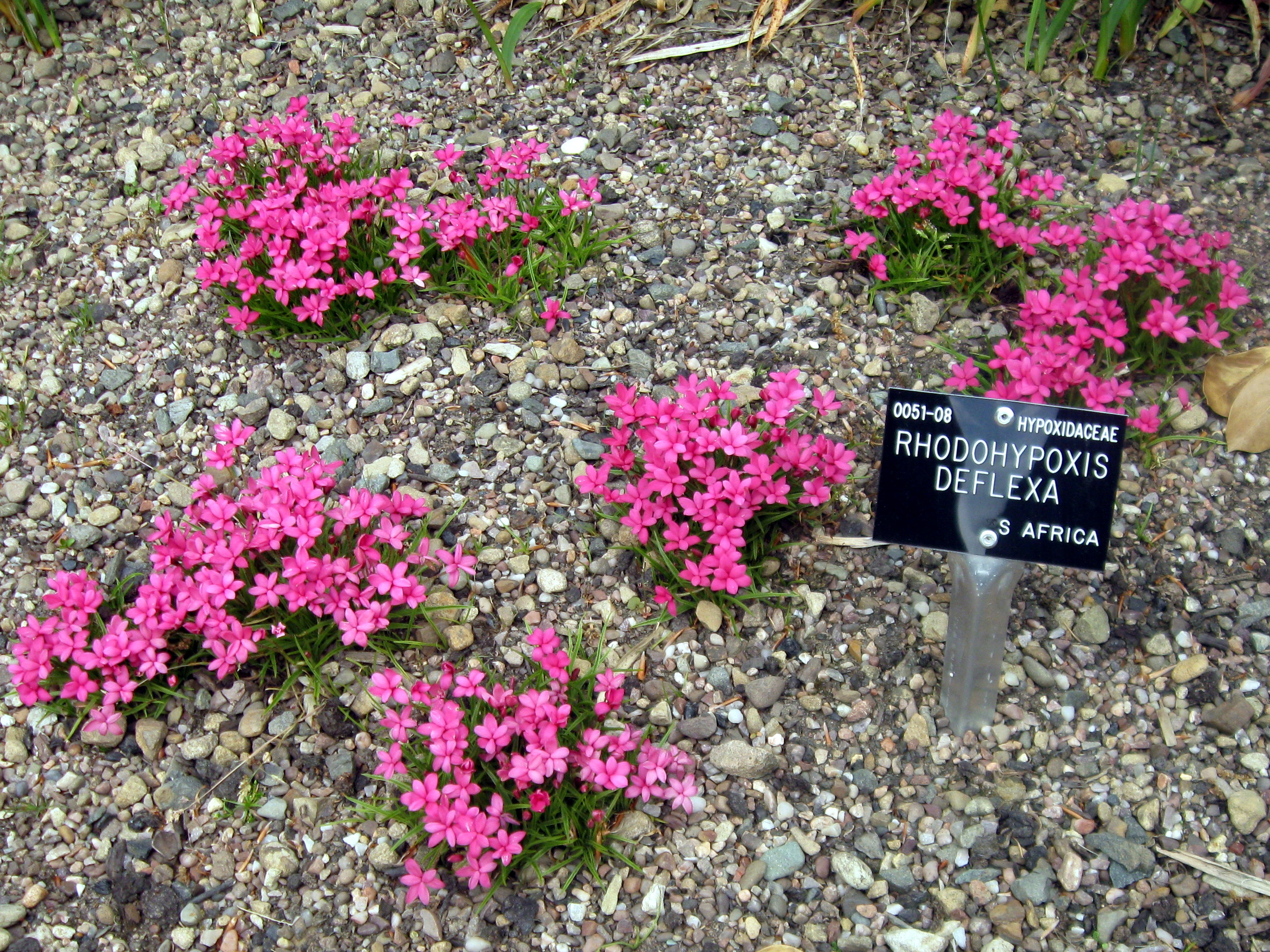 Rhodohypoxis deflexa photographed at Durham University Botanic Garden on 3 June 2009.